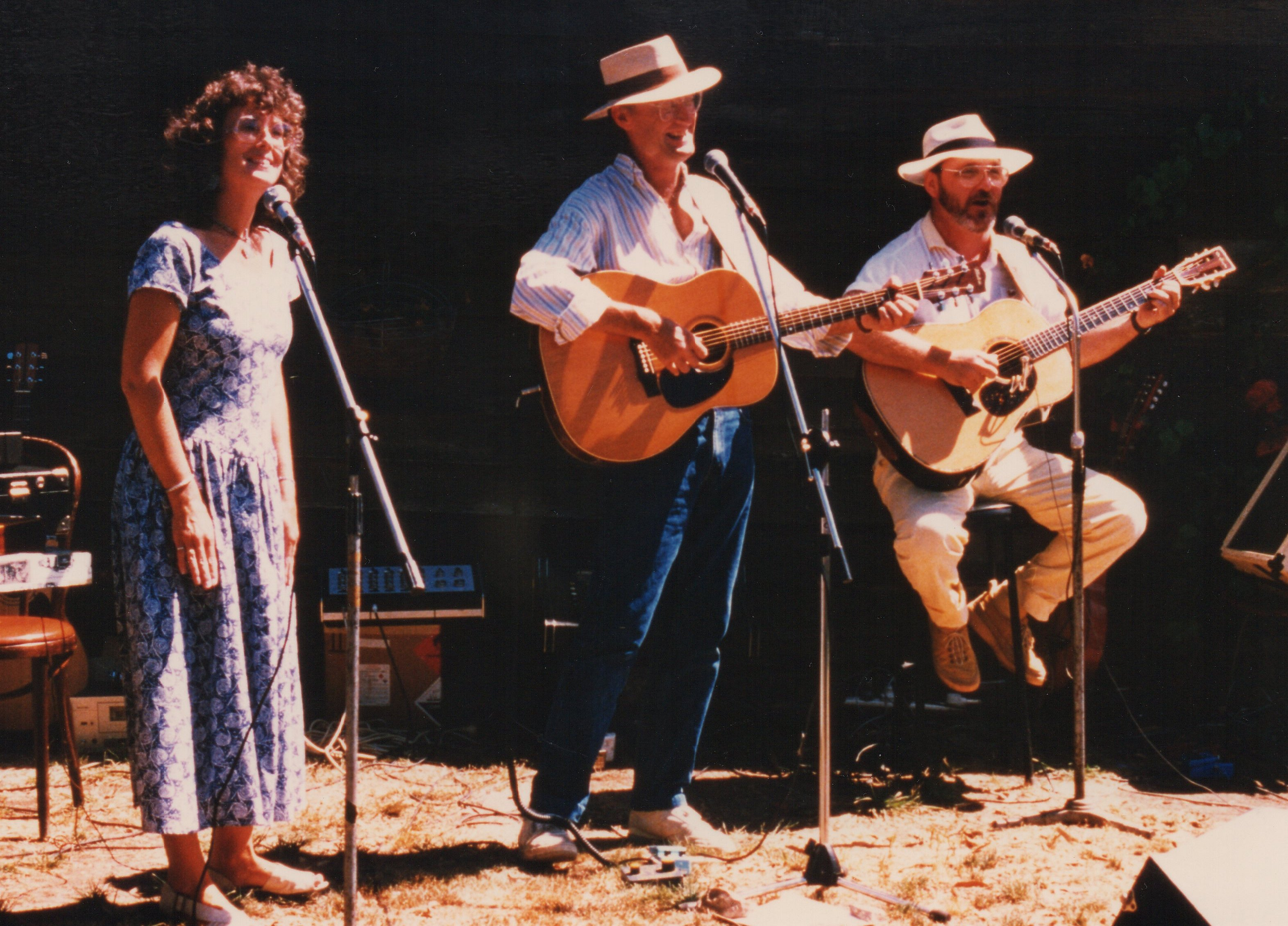 Australian folk trio Tracey-Munro-Tracey on stage at Lancefield Winery, February 1988. L-R: Lynne Tracey (vocals), Denis Tracey (guitar and vocals), John Munro (guitar and vocals). (Tony Rees photograph)